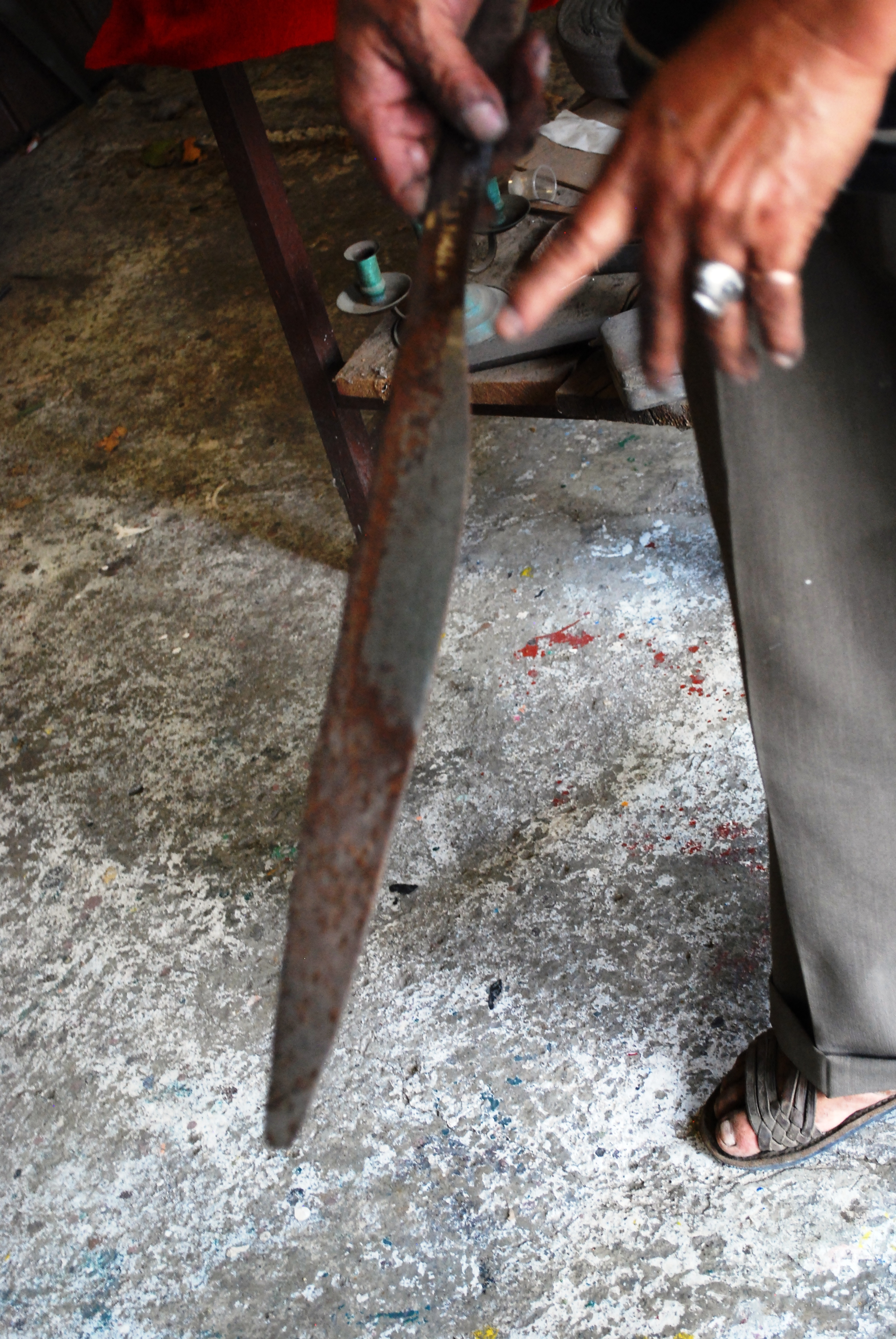 Partially cleaned blade in progress at the Angel Aguilar workshop in Ocotlan de Morelos, Oaxaca, Mexico